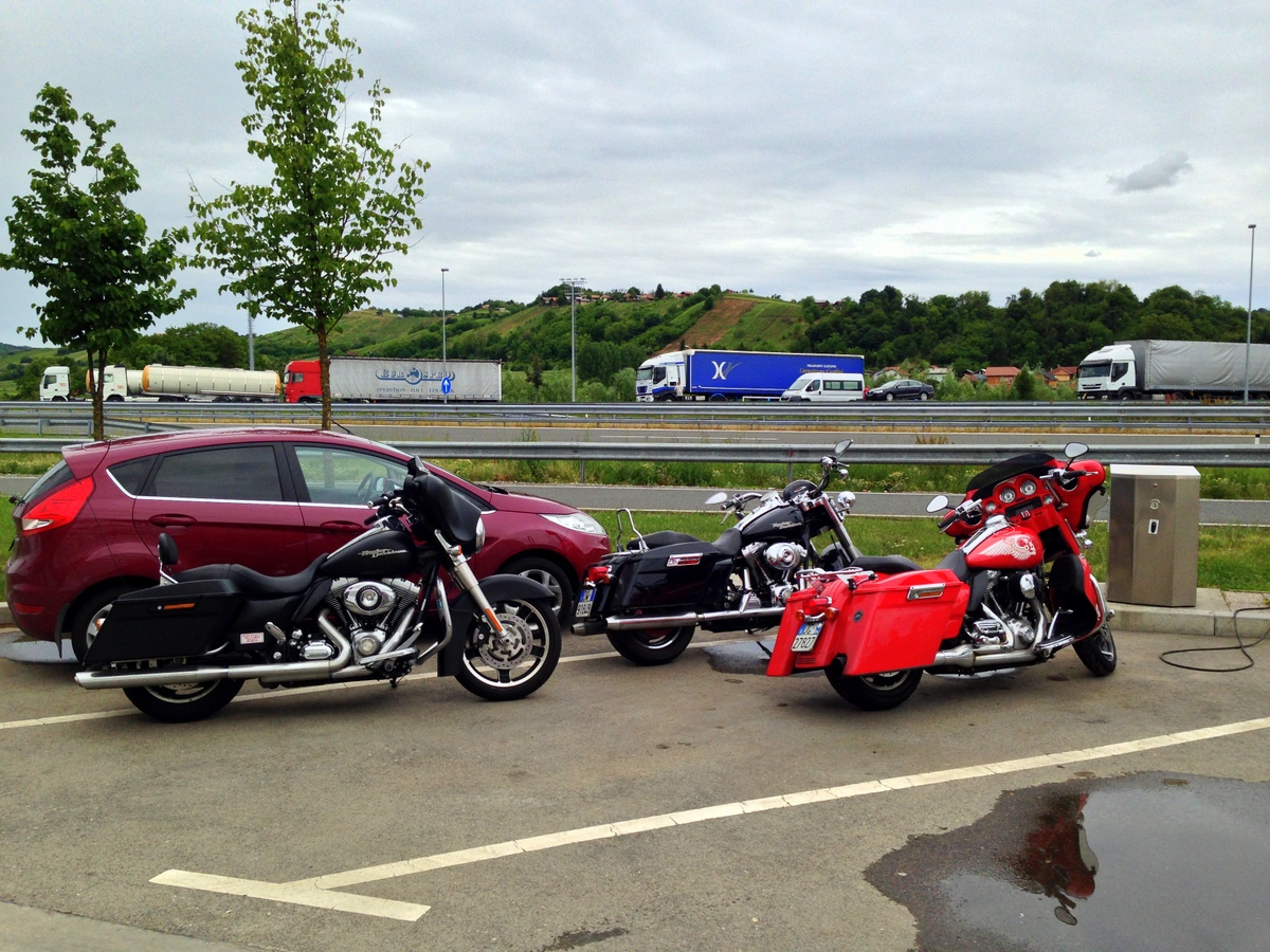 on the road